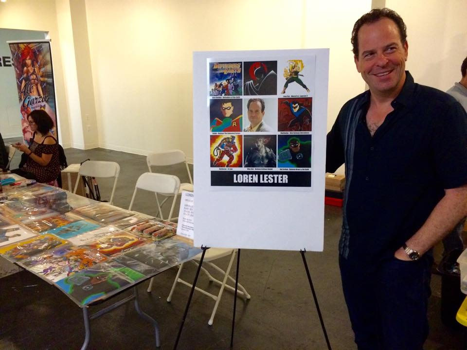 Loren Lester Characters